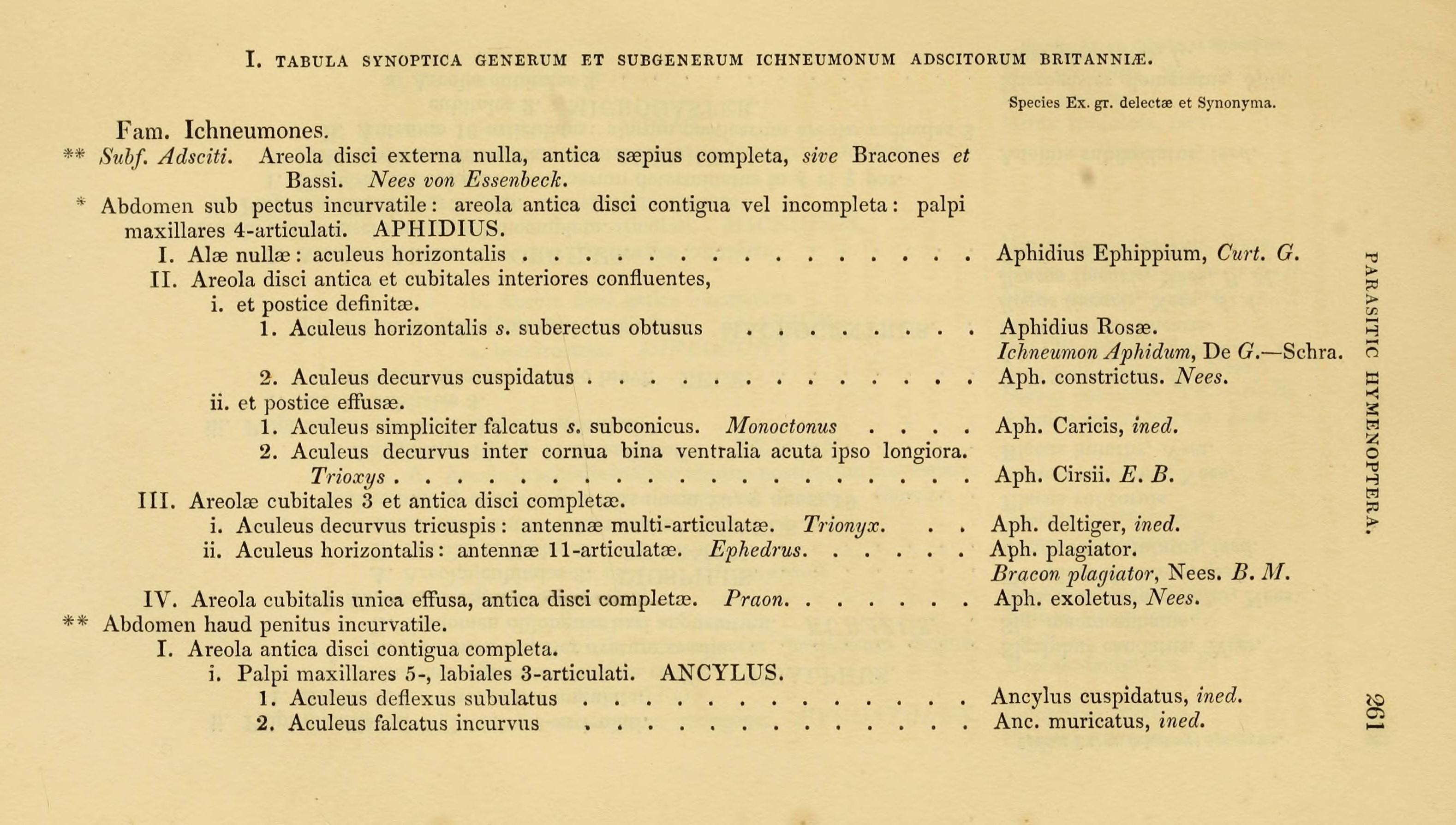 As file{ }